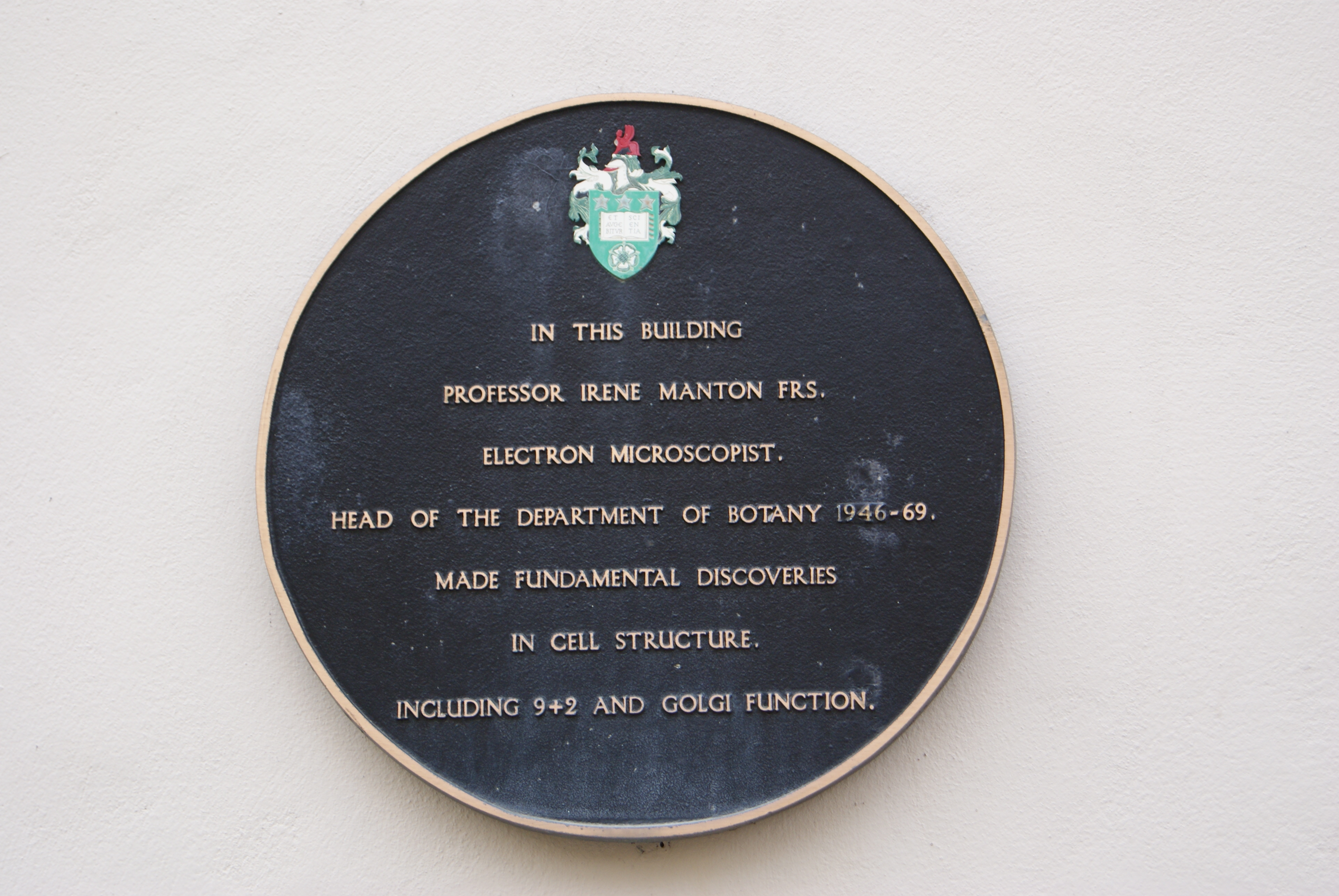 A plaque marking the work of Irene Manton on Botany House at the University of Leeds. Taken on the afternoon of Tuesday the 4th of May 2010.